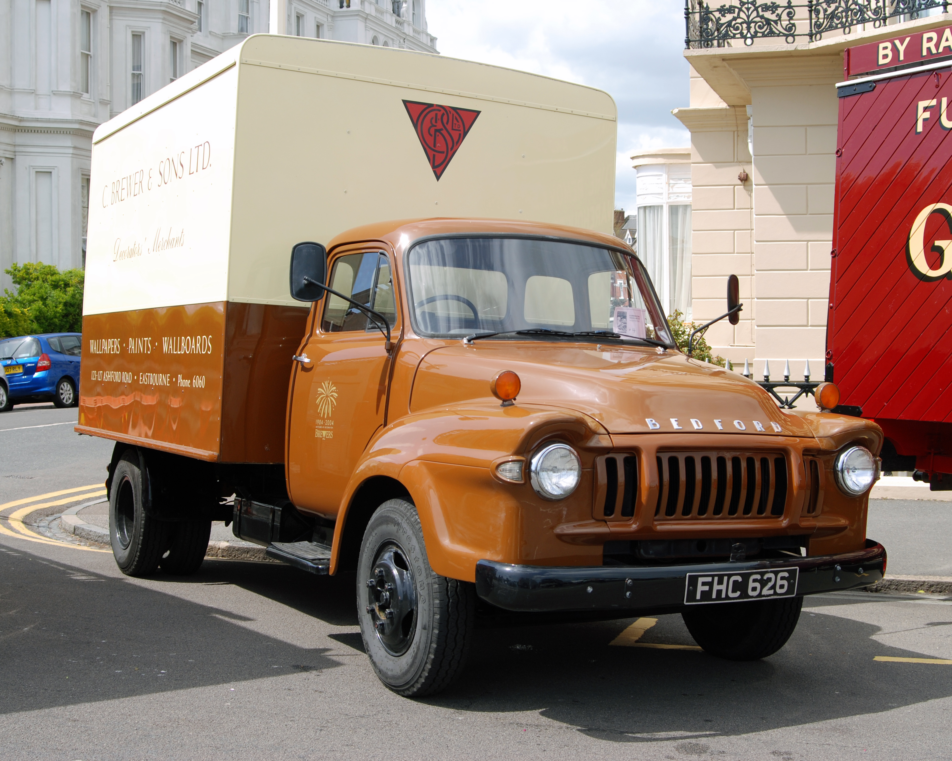 Magnificent Motors,Eastbourne,May 2009